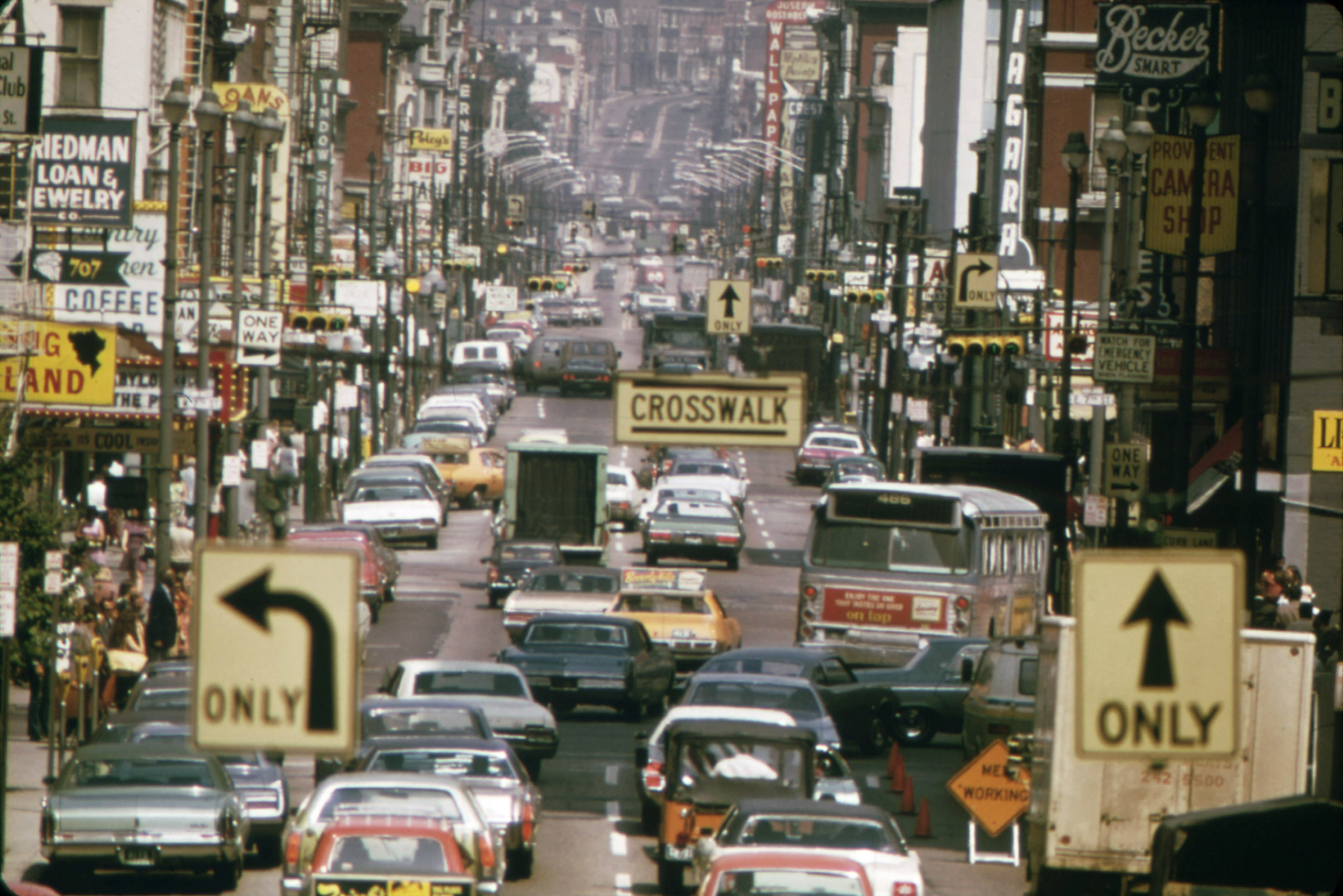 Looking North Along Vine Street from the Overhead Walkway at Fountain Square 08/1973 Original Caption: Looking North Along Vine Street from the Overhead Walkway at Fountain Square 08/1973 U.S. National Archives’ Local Identifier: 412-DA-10817 Photographer: Hubbard, Tom, 1931- Subjects: Cincinnati (Hamilton county, Ohio, United States) inhabited place Environmental Protection Agency Project DOCUMERICA Persistent URL: Repository: Still Picture Records Section, Special Media Archives Services Division (NWCS-S), National Archives at College Park, 8601 Adelphi Road, College Park, MD, 20740-6001. For information about ordering reproductions of photographs held by the Still Picture Unit, visit: Reproductions may be ordered via an independent vendor. NARA maintains a list of vendors at Buy copies of selected National Archives photographs and documents at the National Archives Print Shop online: Access Restrictions: Unrestricted Use Restrictions: Unrestricted License on Flickr (2011-02-19): No known copyright restrictions ( Flickr tags: U.S. National Archives, Environmental Protection Agency, DOCUMERICA, nara:arcid=553276